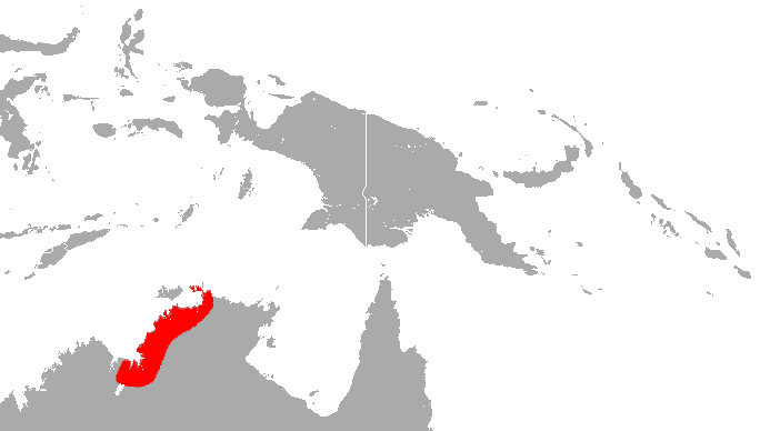 Arnham Tomb Bat (Taphozous kapalgensis) range